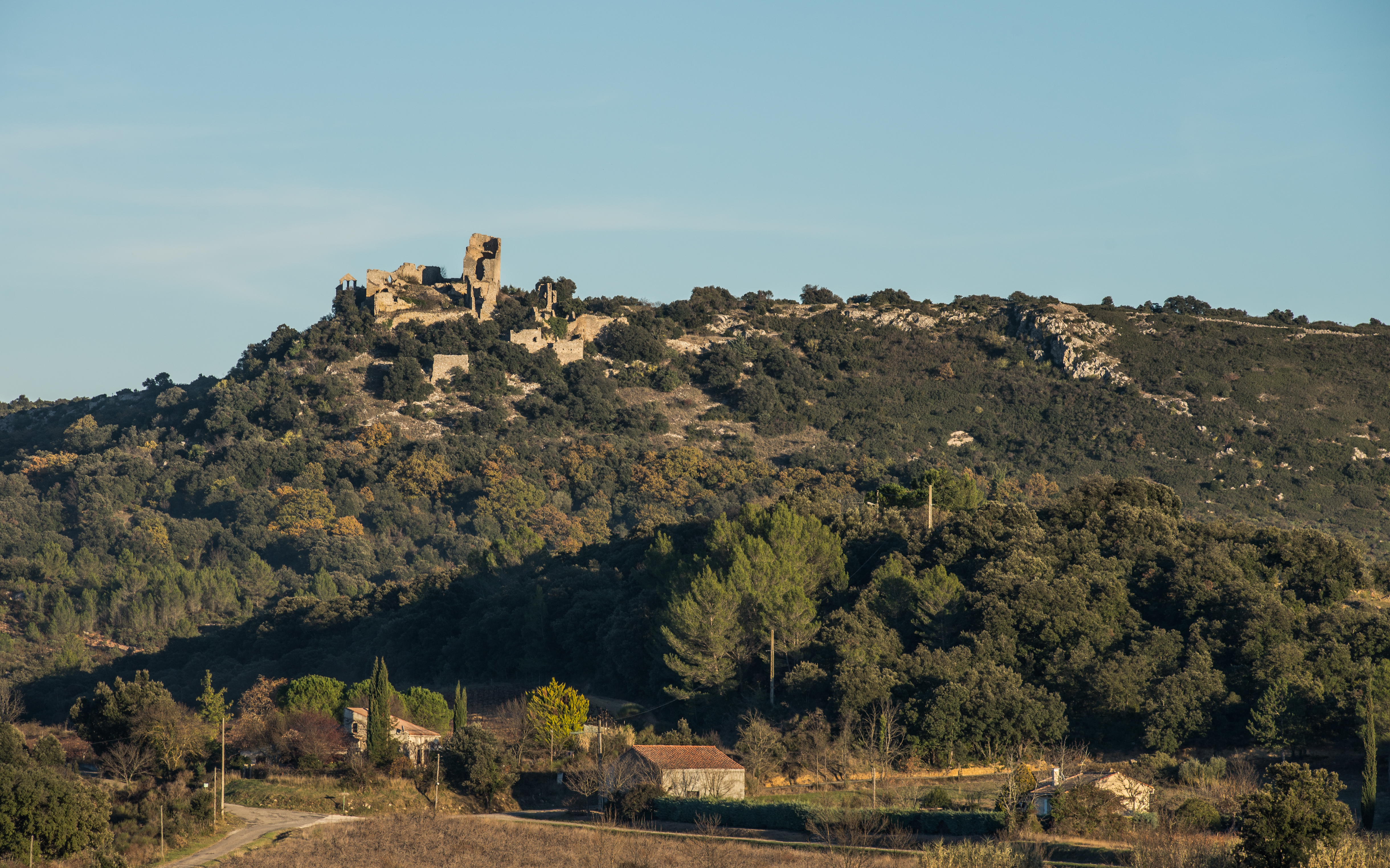 Castle of Aumelas, general view from West. Aumelas, Hérault, France. .